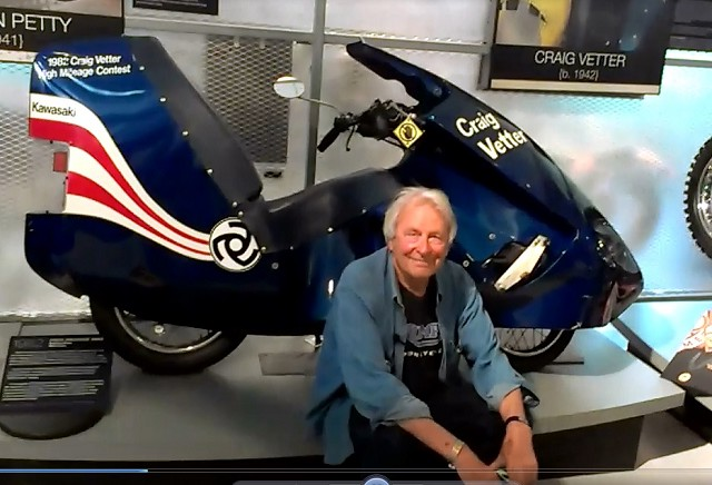 Craig Vetter with his 1981 Streamliner. Picture taken at AMA Museum in July 2016.